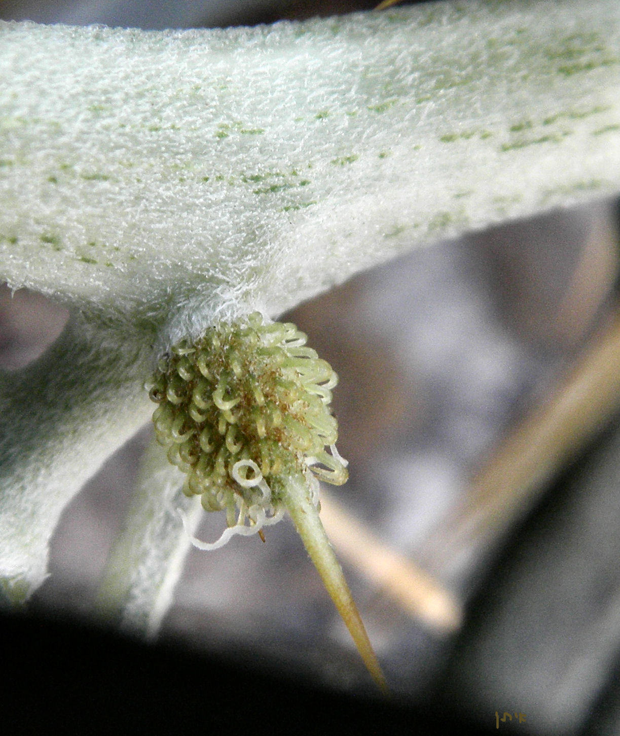 Xanthium spinosum - pistillate (female) flower. Daggerweed לכיד קוצני - פרח עליני. נחל השופט